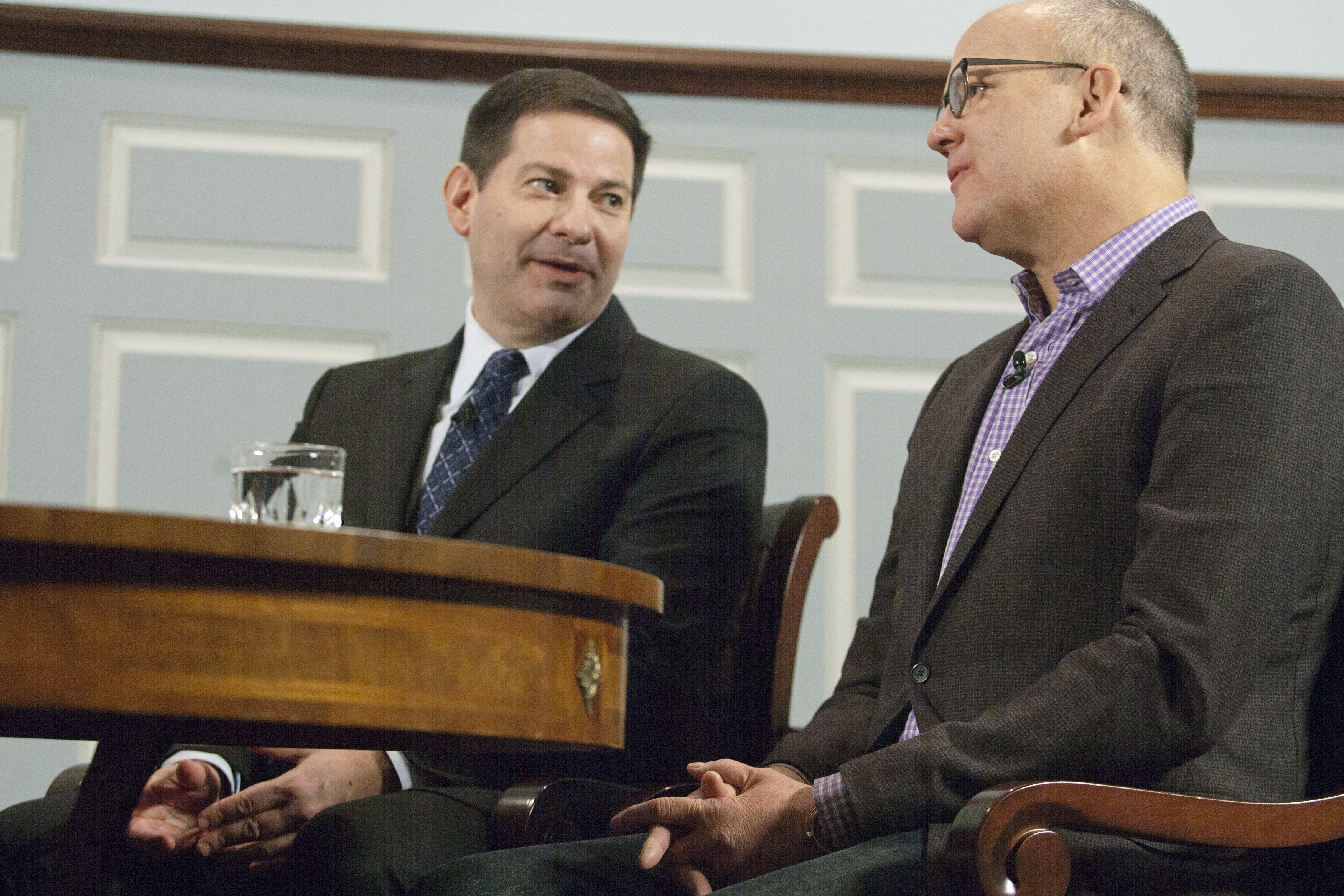 Mark Halperin and John Heilemann, "Double Down: Game Change 2012" 1/8/14. Visit